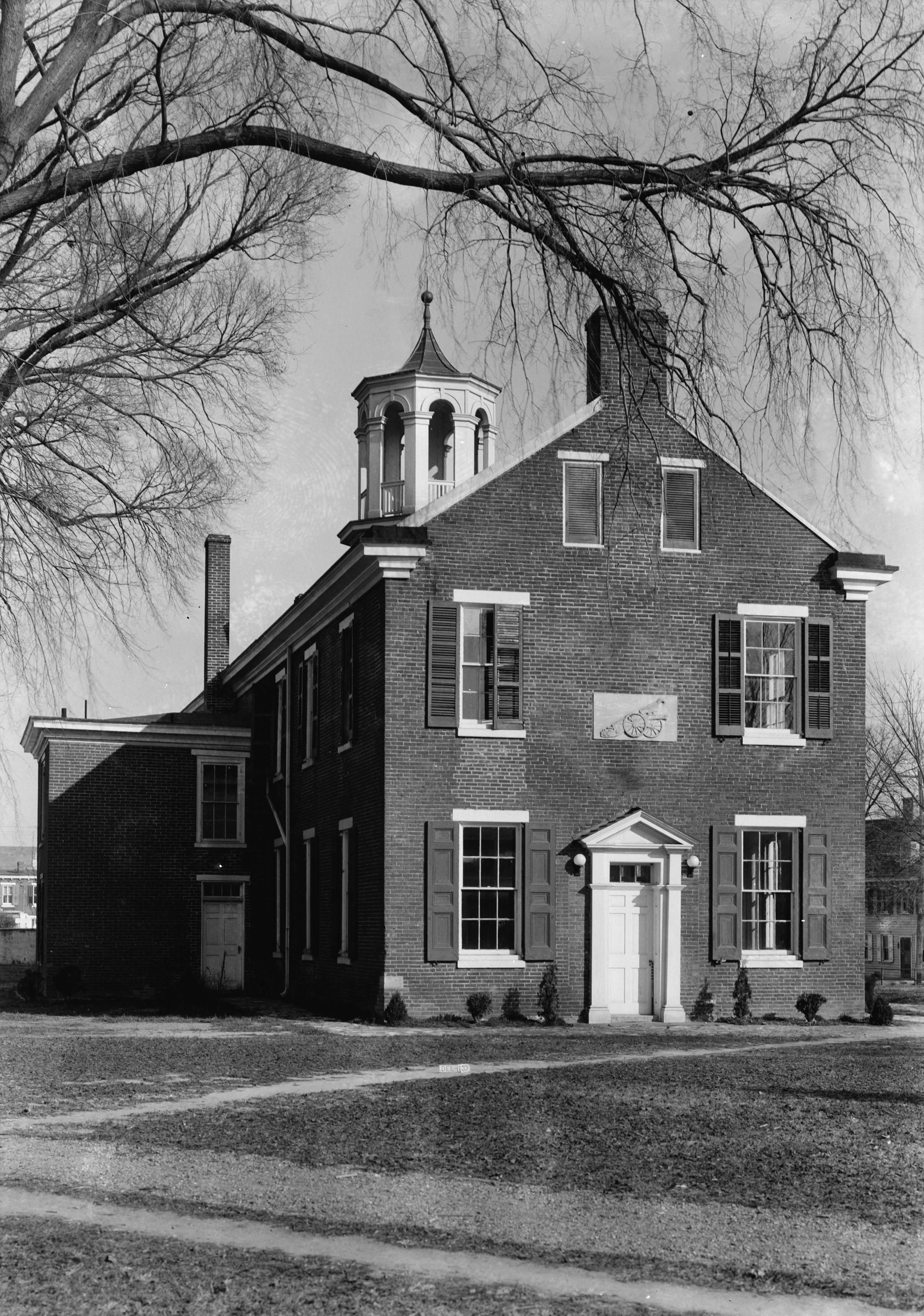 Old Arsenal, The Green, New Castle. New Castle County, Delaware — (cropped). Image courtesy of the Historic American Building Survey archives.